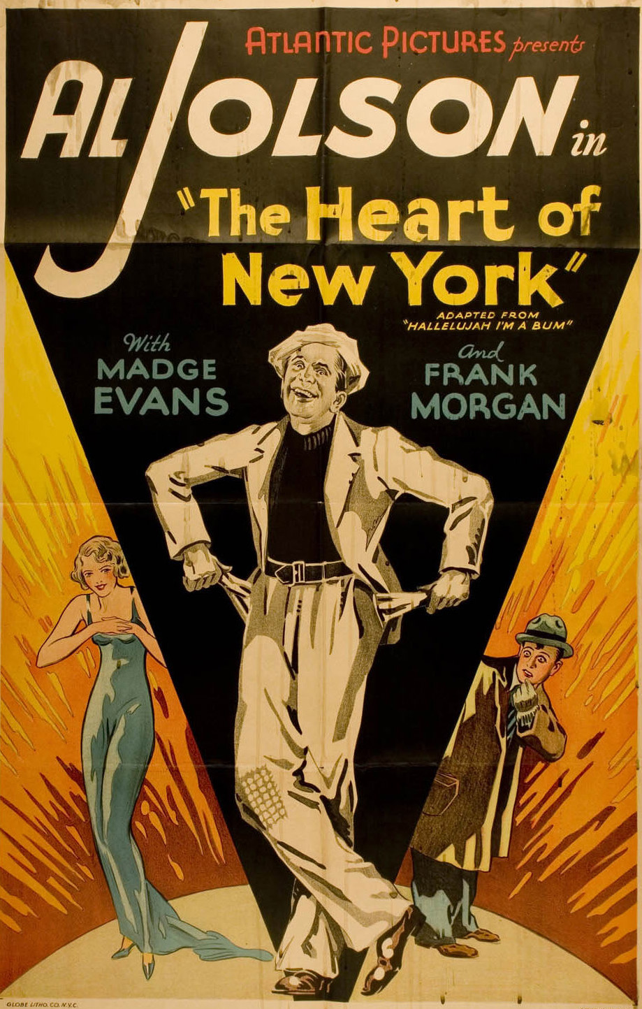 Movie poster for The Heart of New York (1941 reissue title for the 1933 film Hallelujah, I'm a Bum). Image captured by uploader.